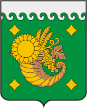 Shcherbinovskoe (Krasnodar krai), coat of arms